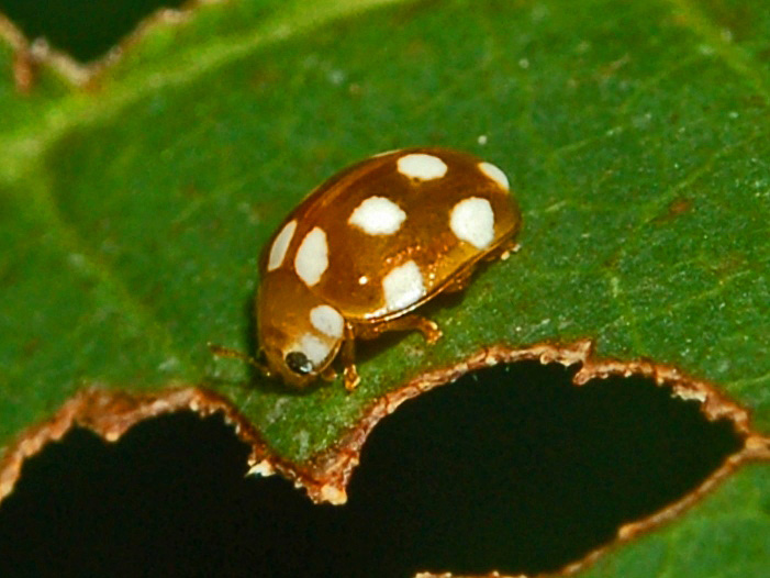 Vibidia duodecimguttata